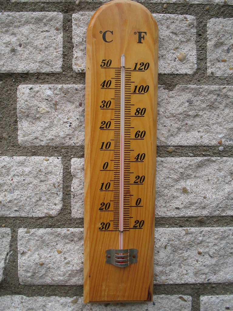 Outdoors thermometer.